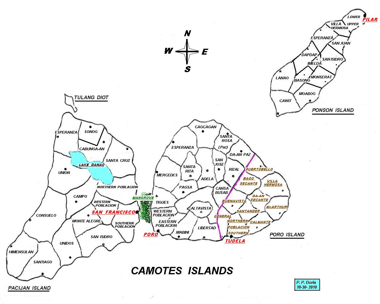 detailed map of camotes islands